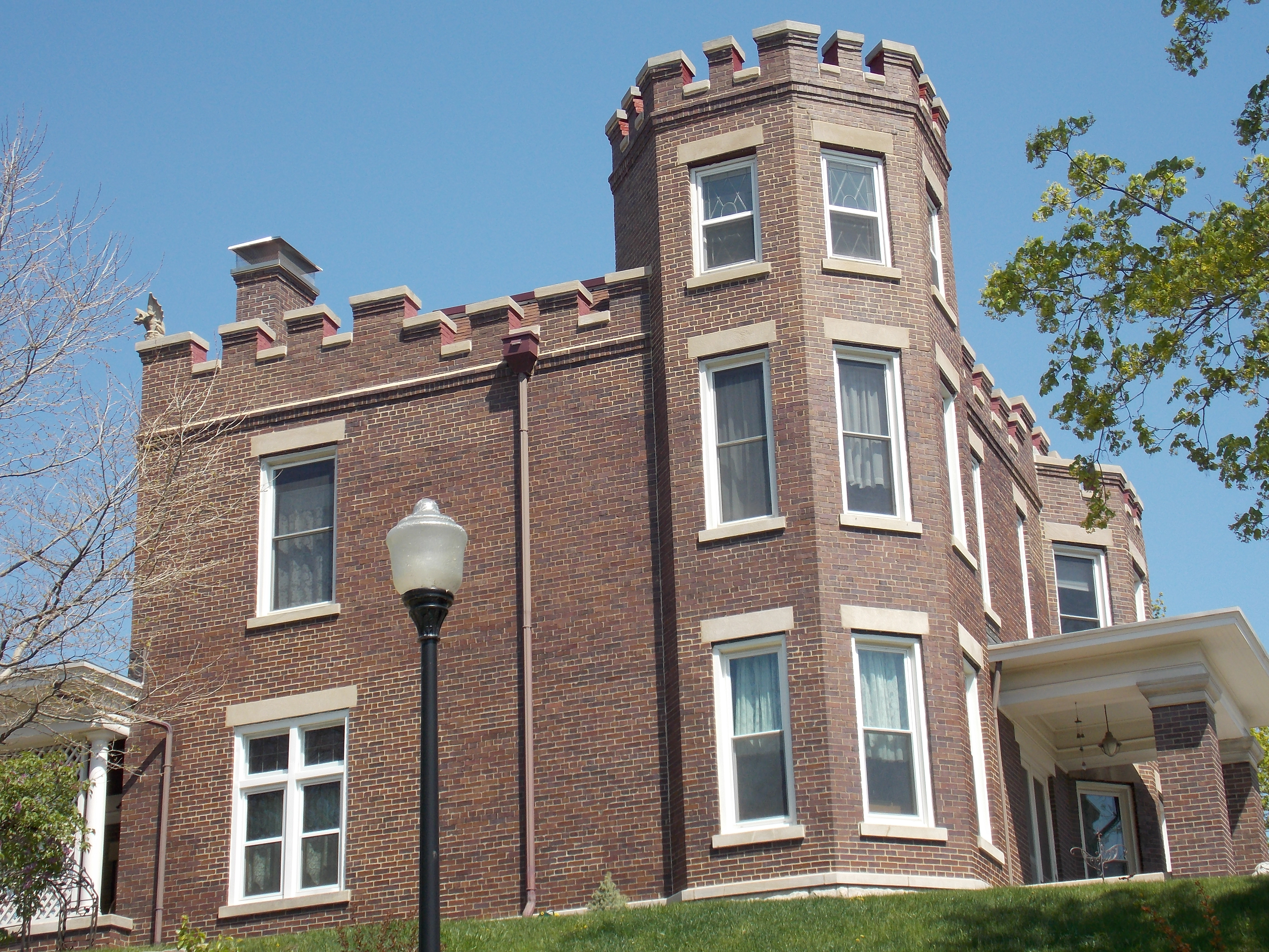 The Henry Christian Struck House in Davenport, Iowa is a contributing property in the Hamburg Historic District.